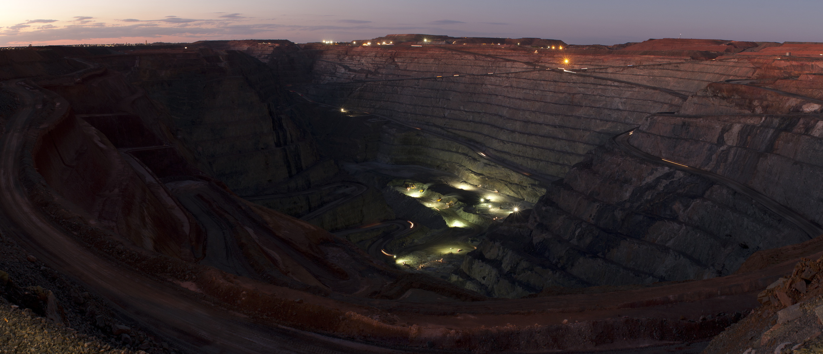 The Super Pit at dusk